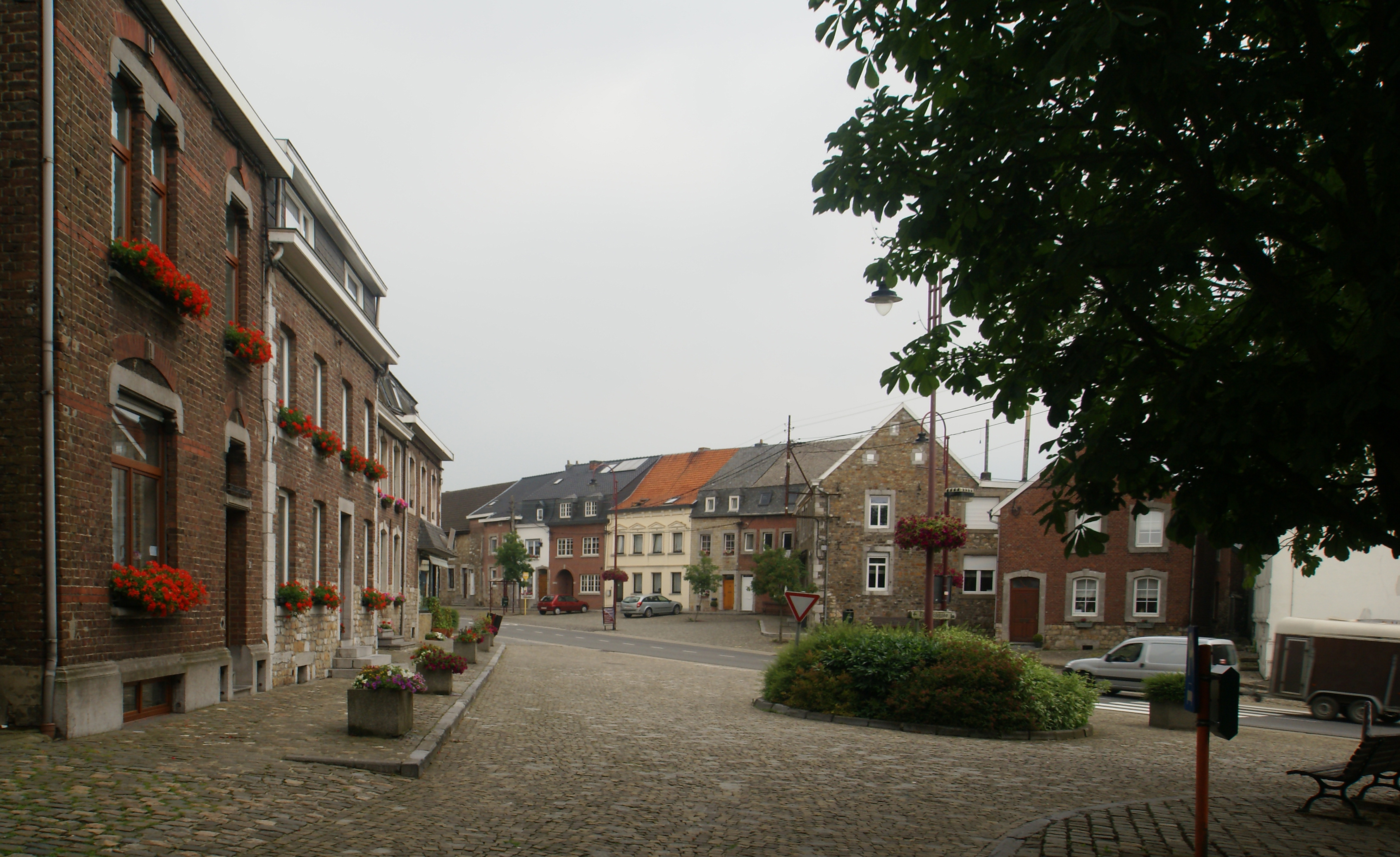 Henri-Chapelle (Belgium): town centre